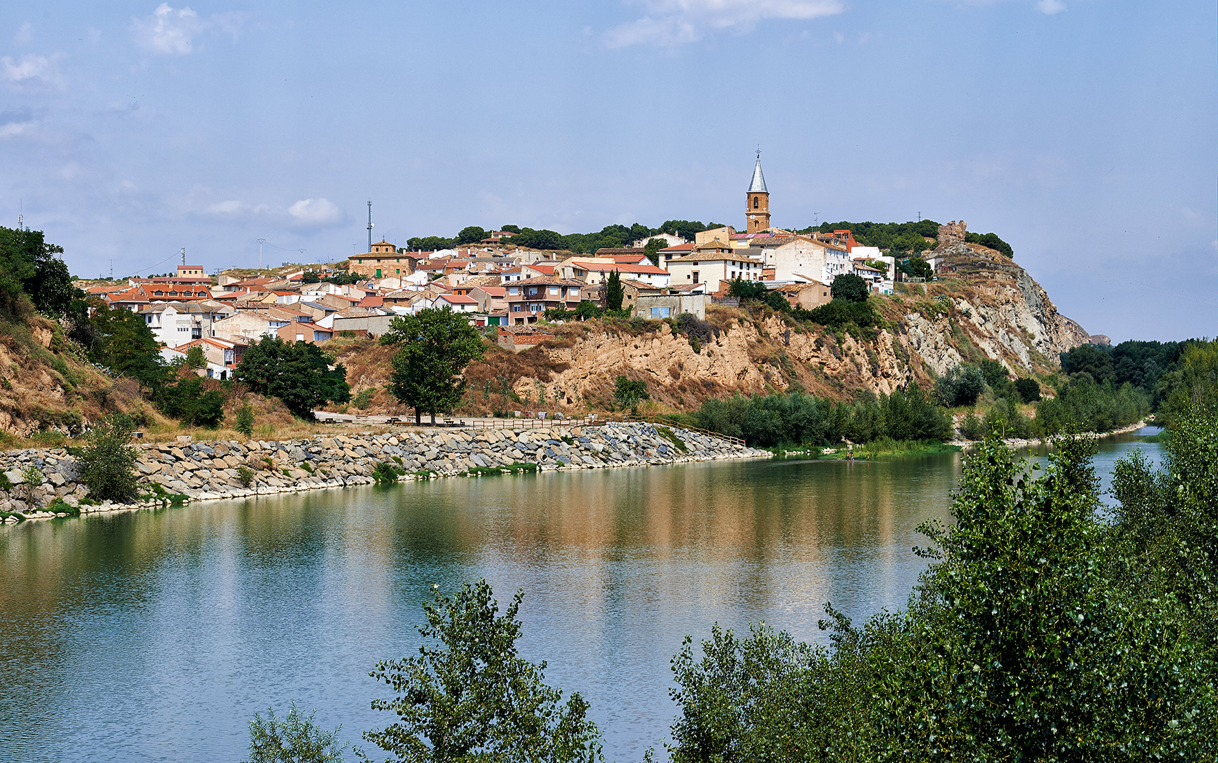 General landscape from Milagro (Navarra, Spain)